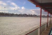 Bastionsnow